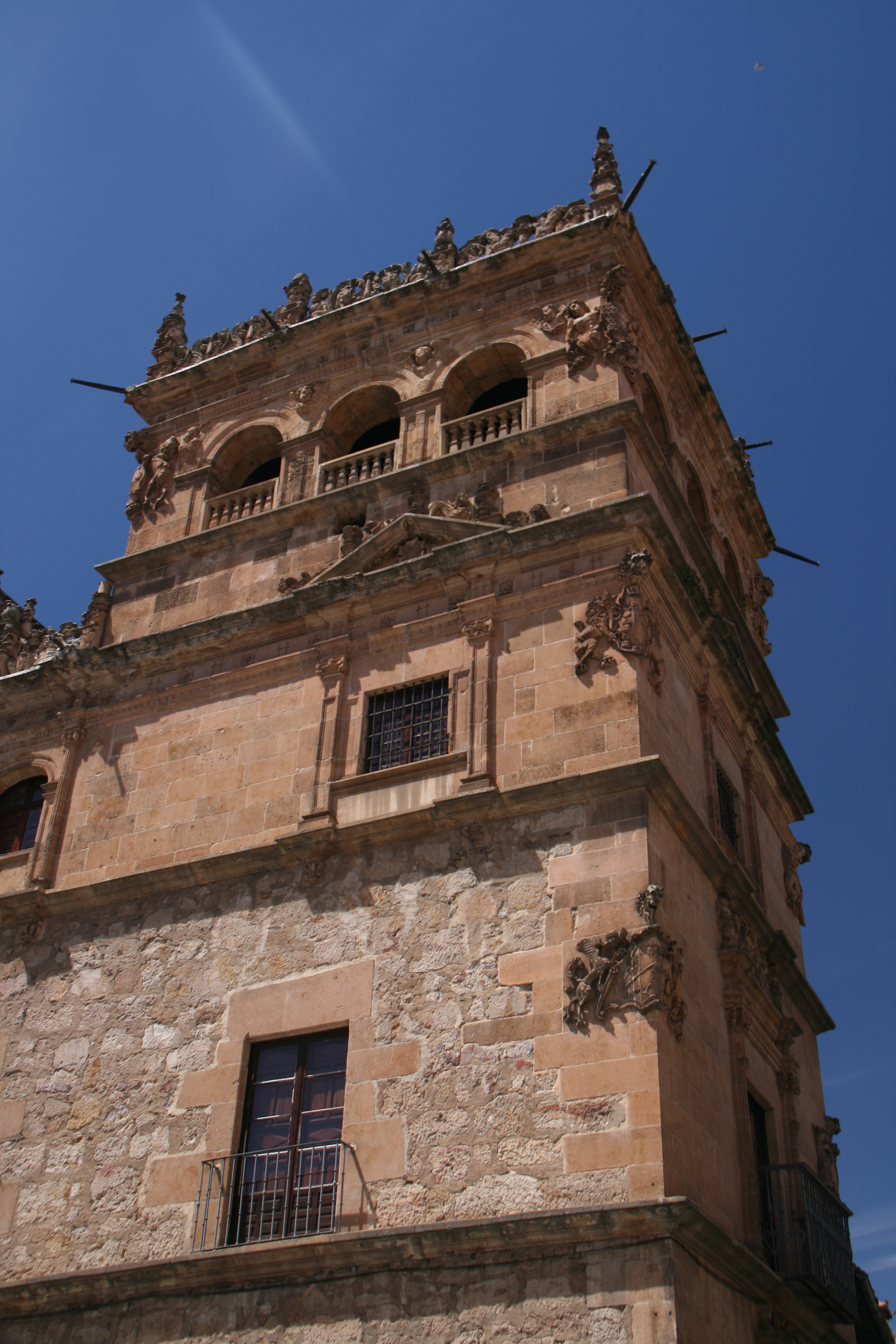 Palace of Monterrey